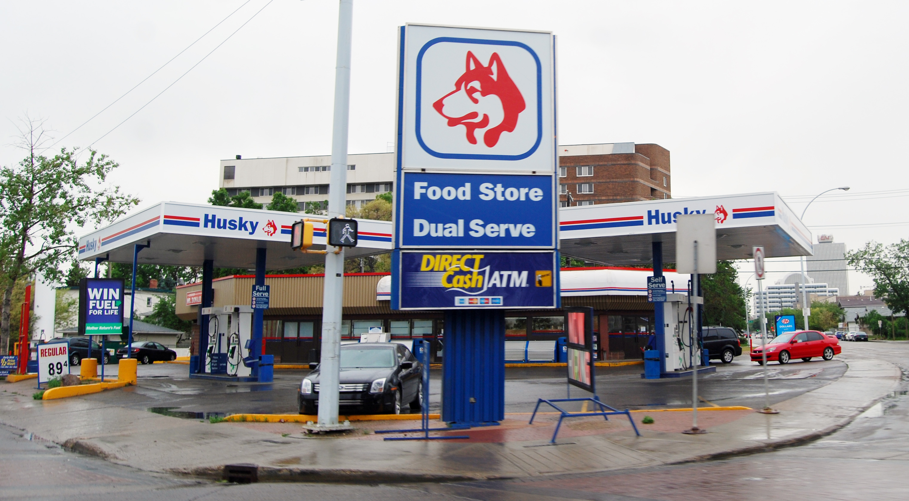 I, Myke Waddy took this photo, Downtown Edmonton, Alberta Canada. Jasper Ave